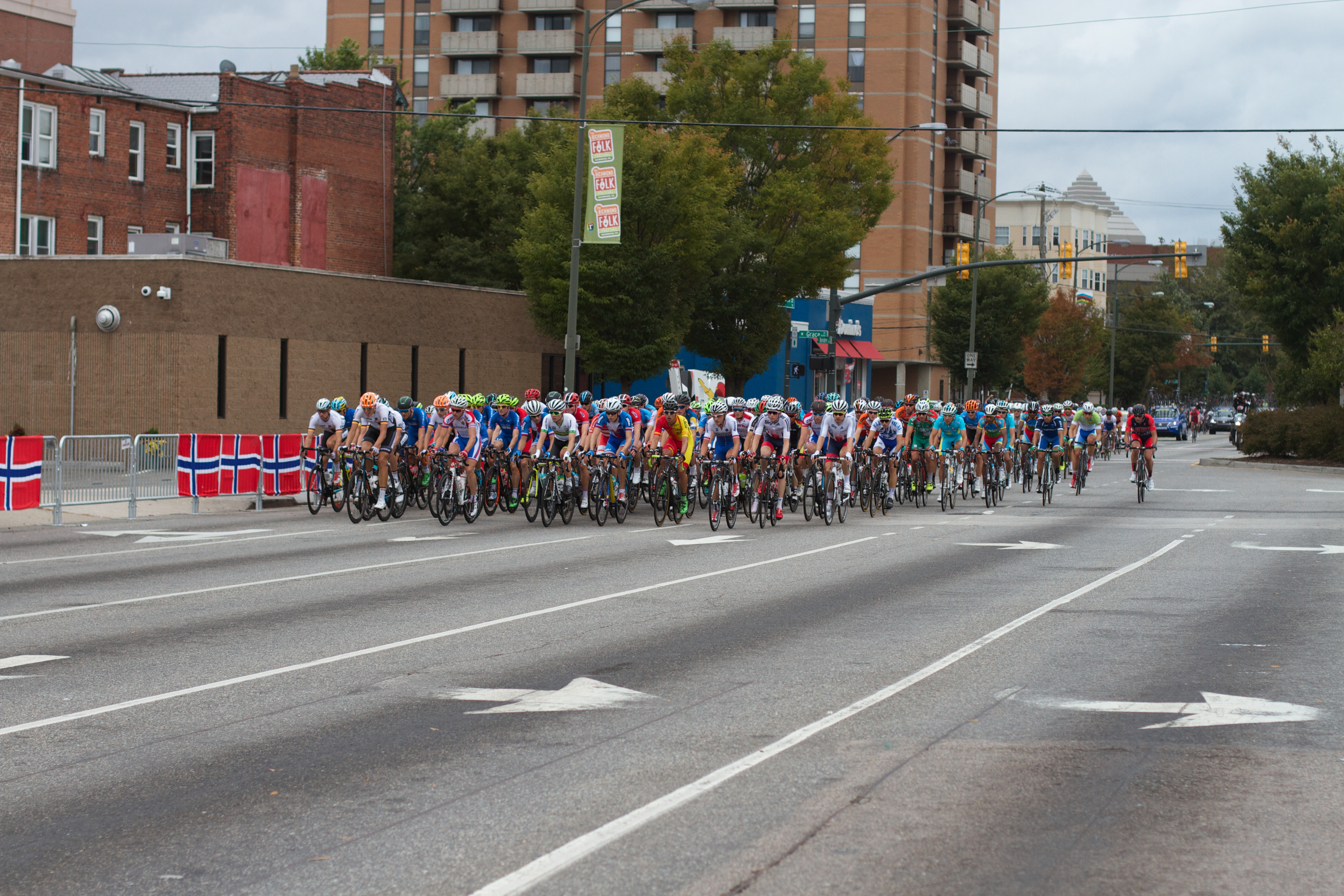 UCI Road Championship Races, Richmond VA 2015 UCI Road World Championships, in Richmond, United States, men's under-23 road race